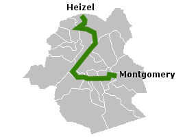 Itinerary of tramway line 81 in Brussels